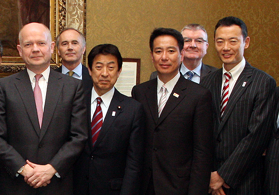 Members of the UK-Japan 21st Century Group met William Hague, Secretary of State for Foreign and Commonwealth Affairs, in the United Kingdom on May 2, 2013.